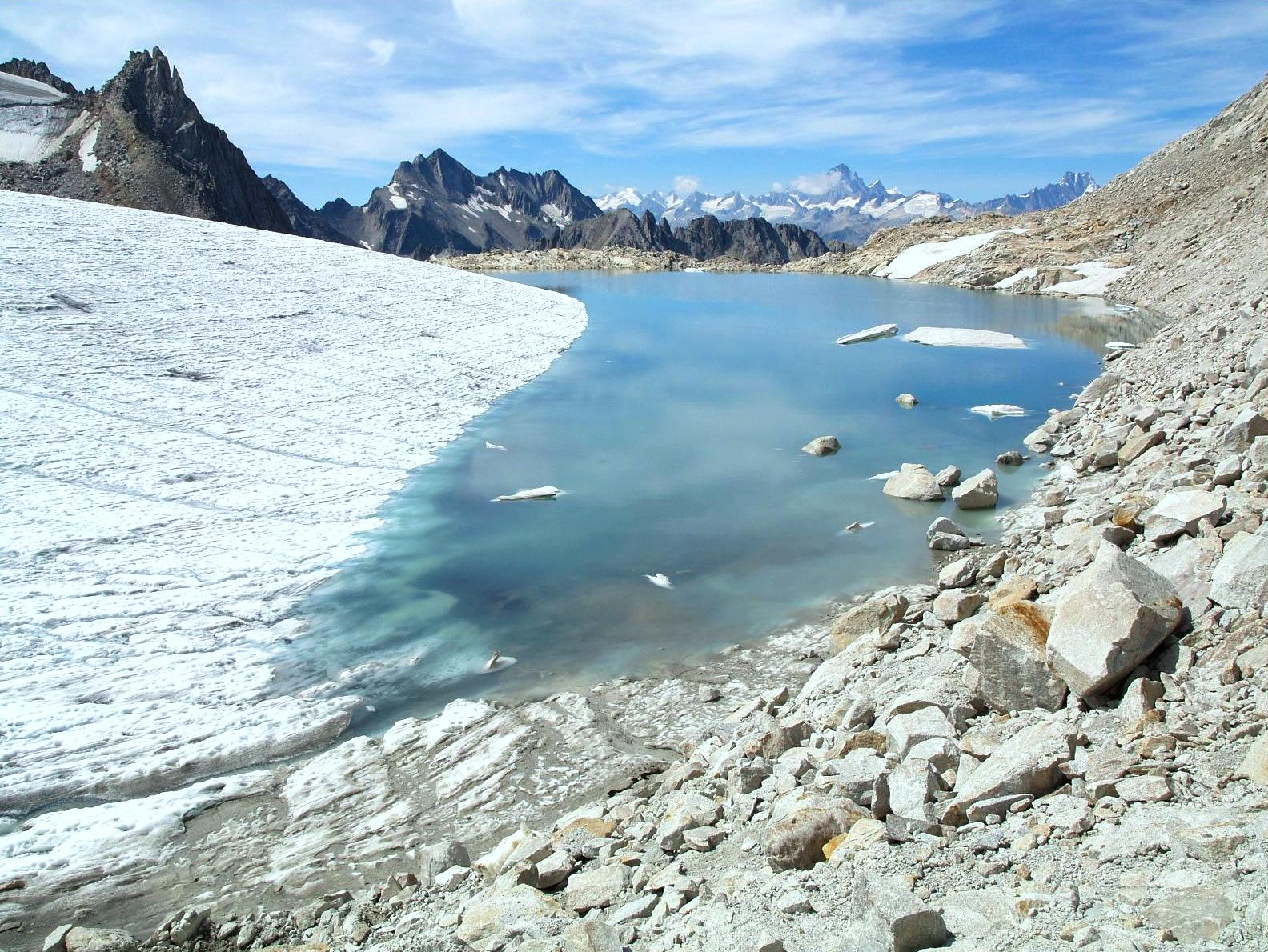 Pizzo Rotondo glacier, Switzerland